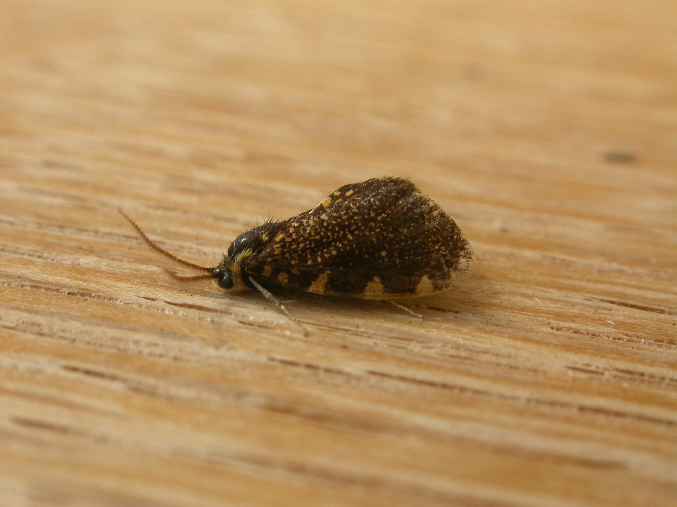 Cebysa leucotelus Walker, 1854, male, to MV light, Aranda, ACT, 19/20 March 2010